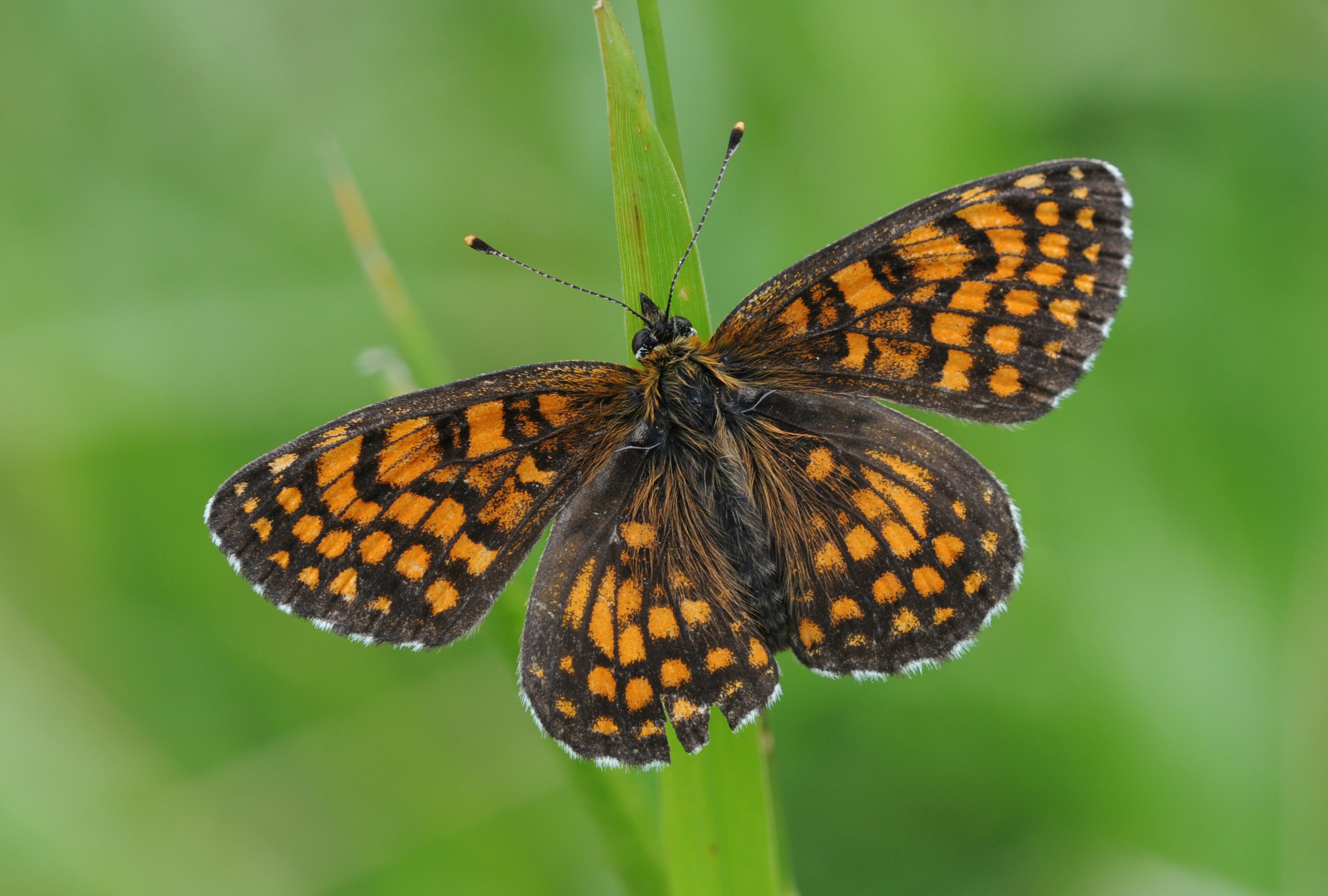 Wing upperside view of an Assmann's Fritillary (Melitaea britomartis). Dereköy, Kırklareli - Turkey.